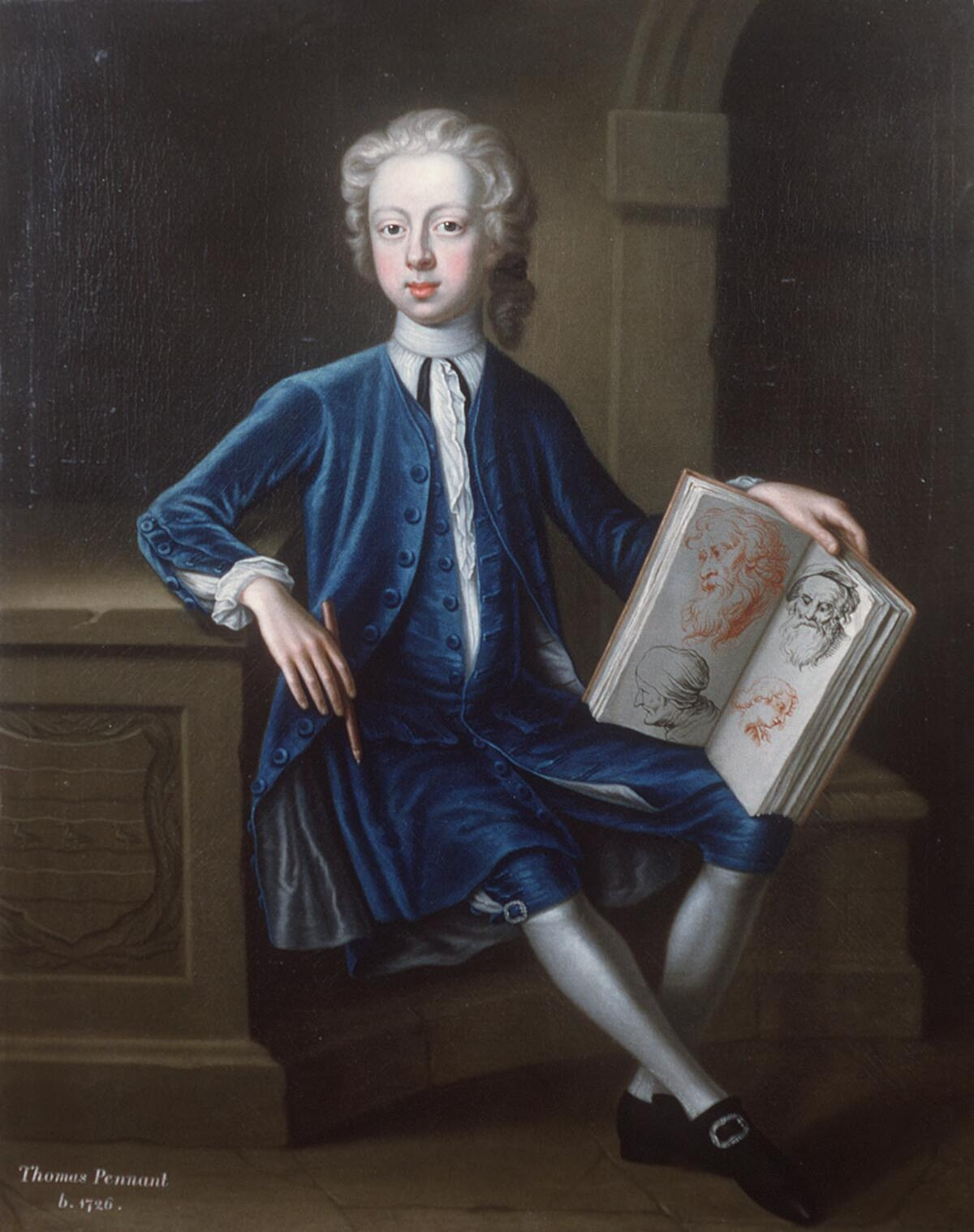 A painting from the Framed Works of Art collection at the National Library of wales.